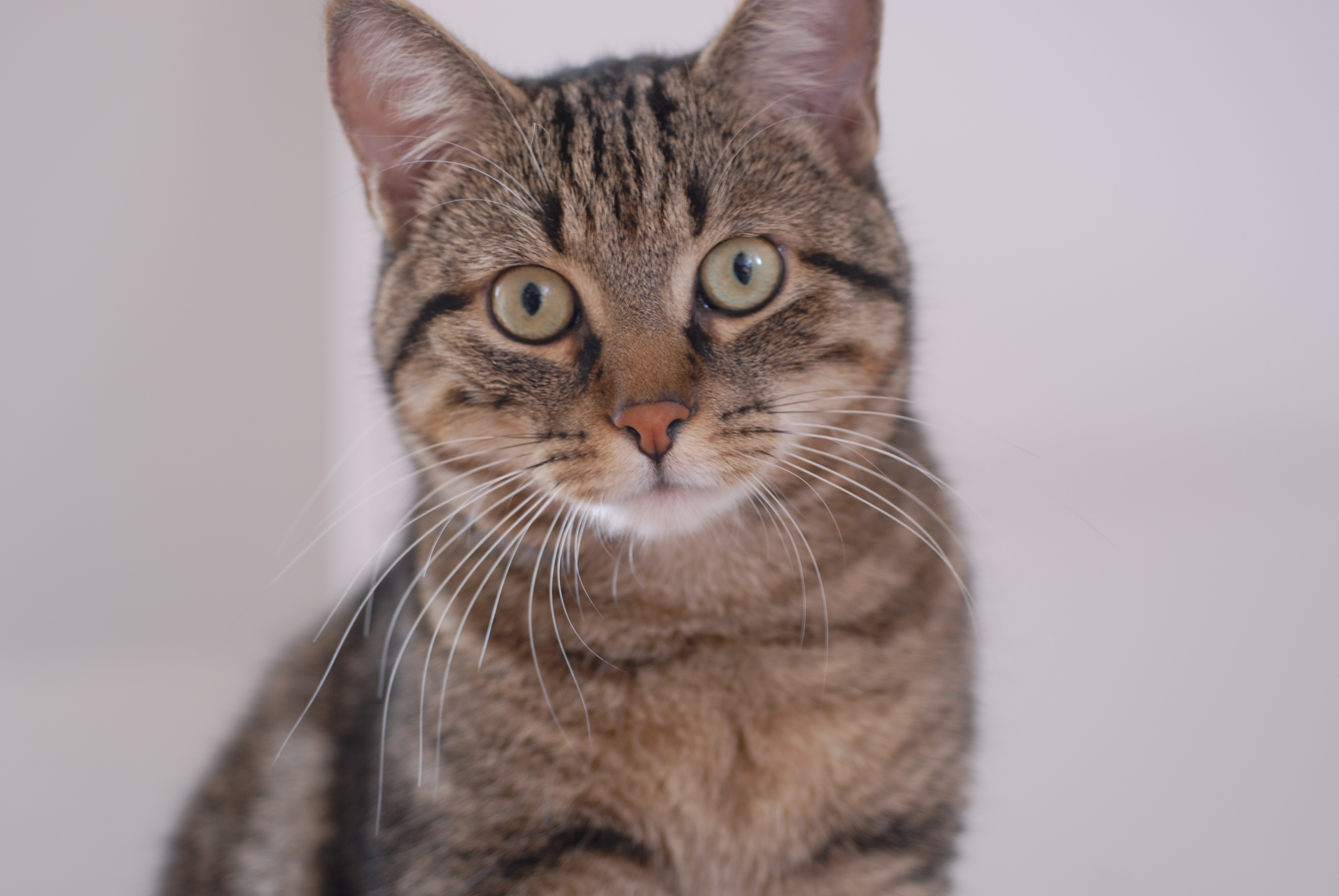 Domestic cat, Portrait; My cat, named Quincy